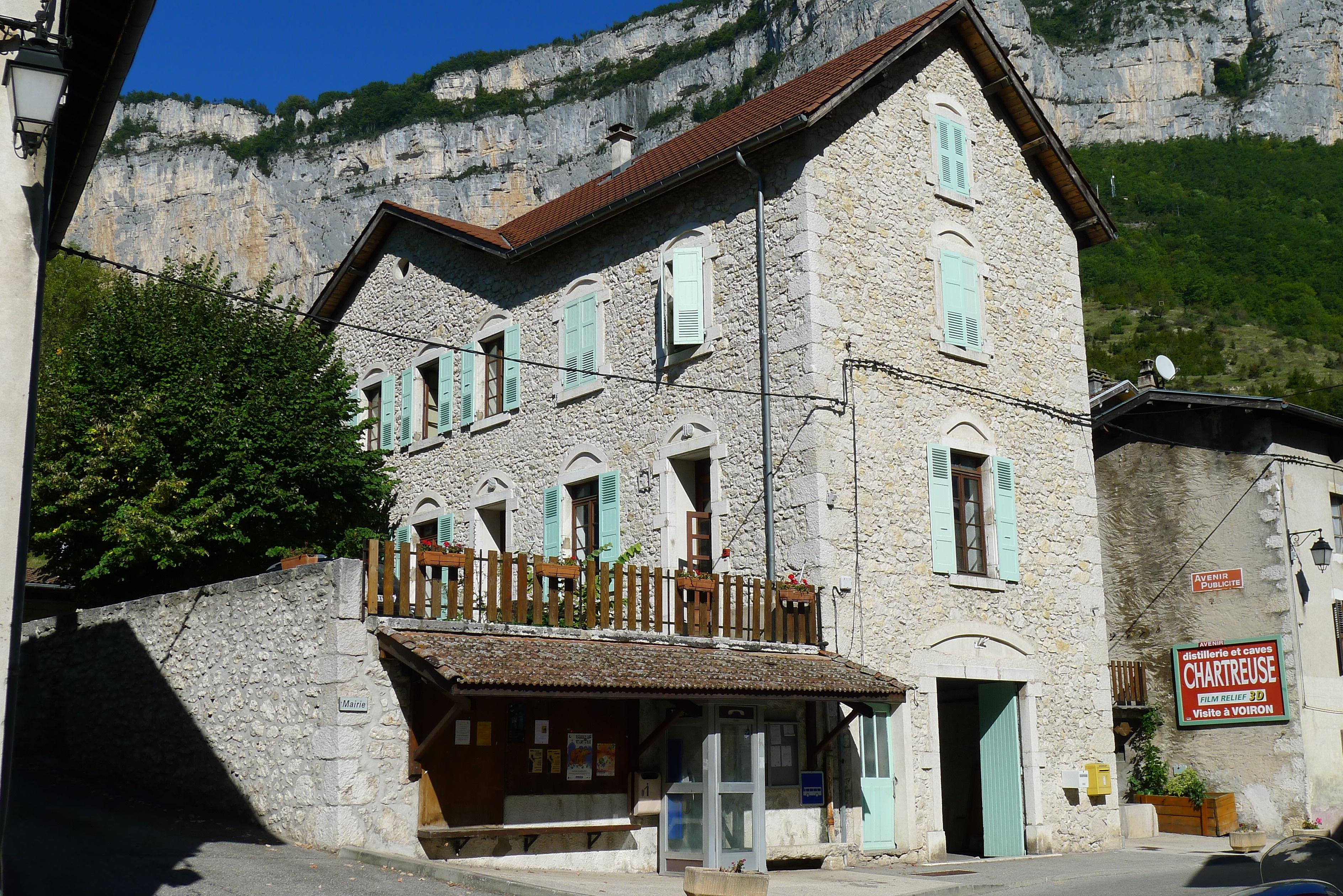 Town hall of Choranche - Isère - France